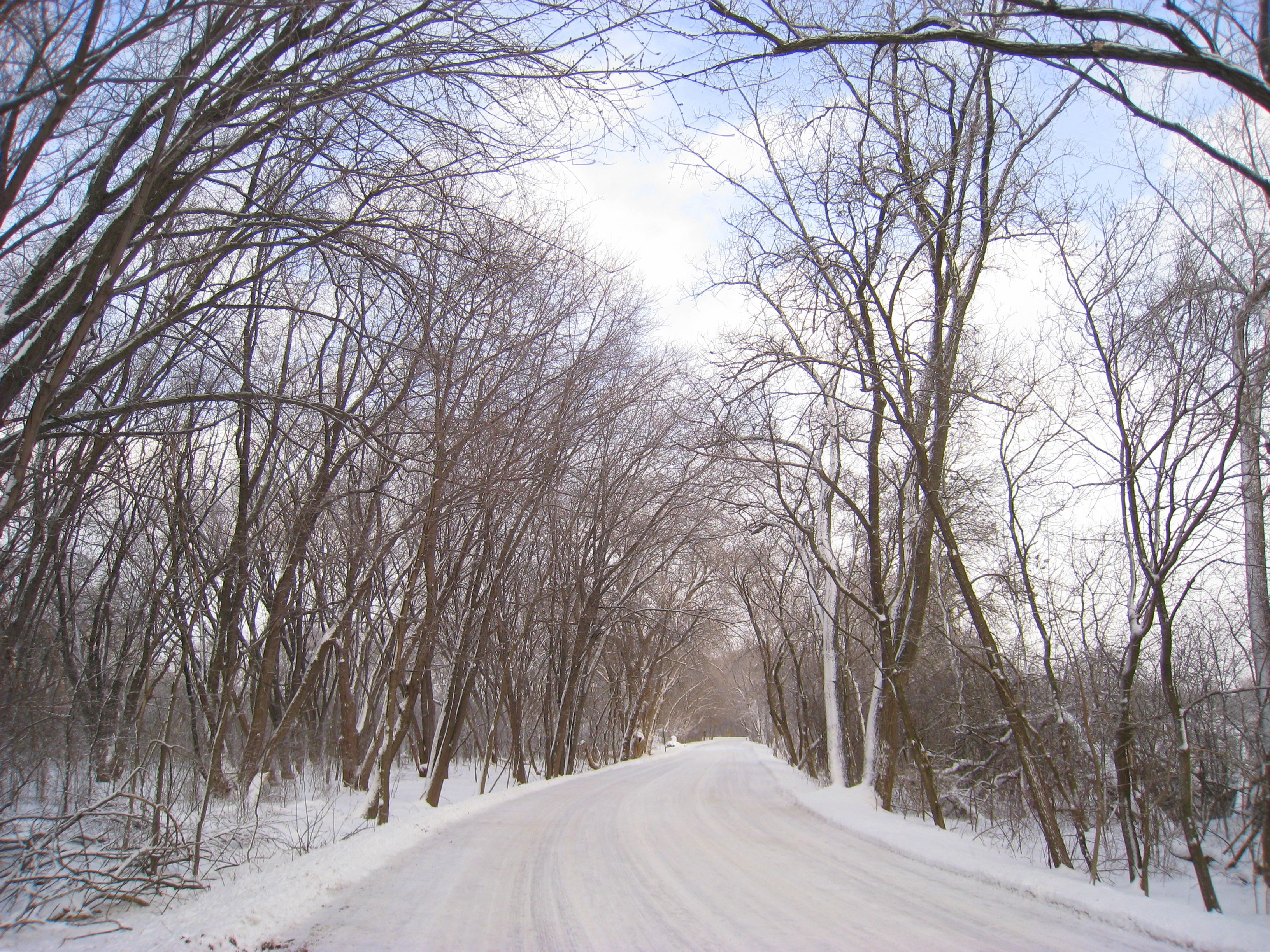 University of Wisconsin - Madison Arboretum, Madison, Wisconsin, USA.